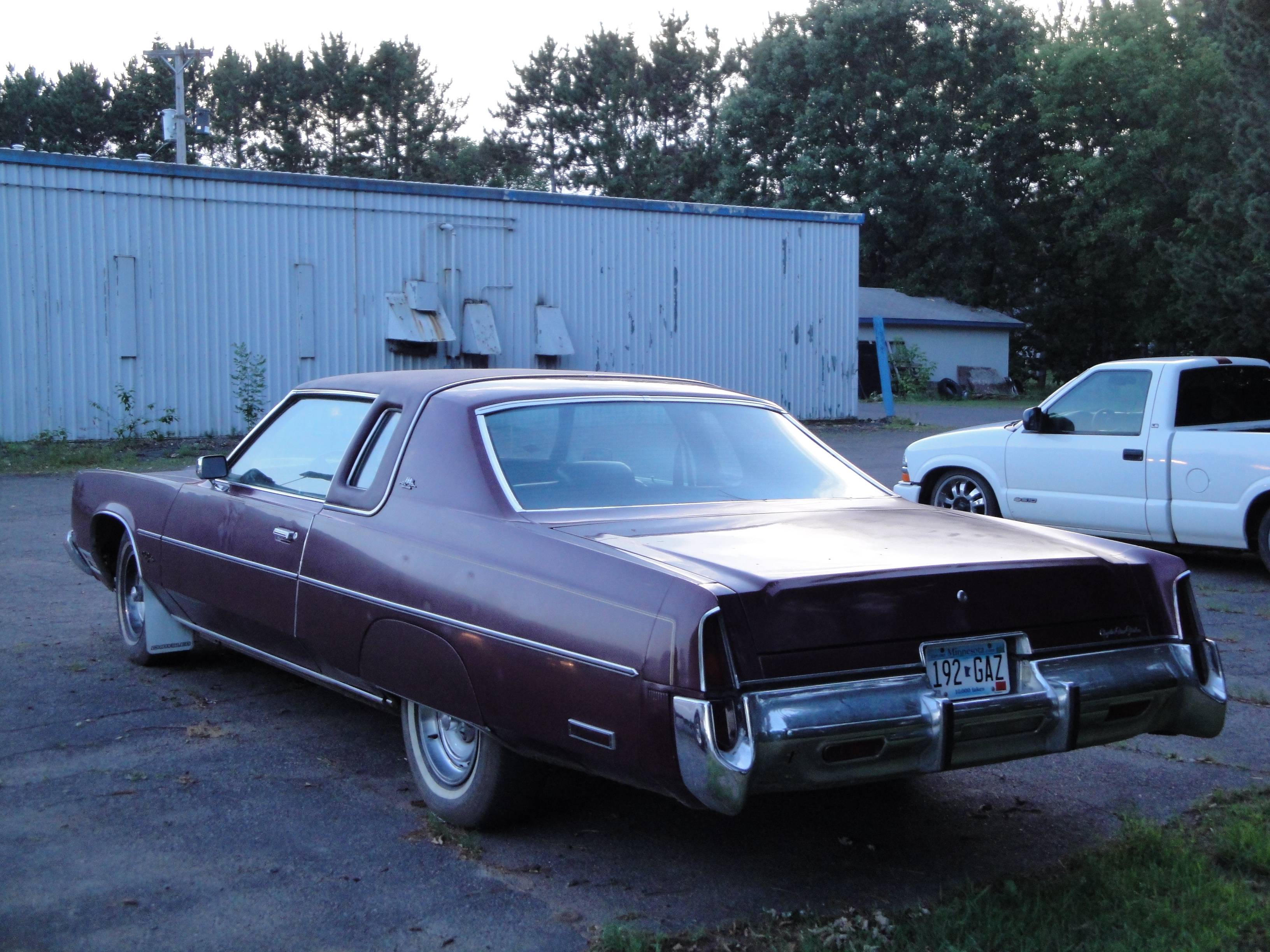 1976 Chrysler New Yorker Brougham